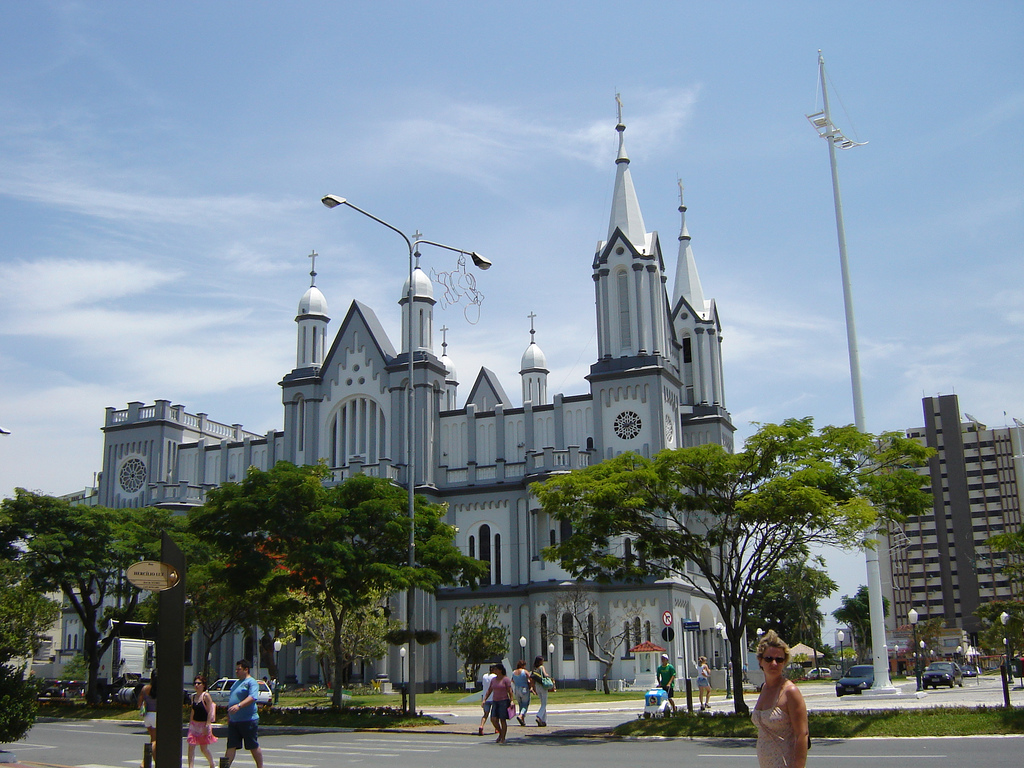 An image of mine posted on flickr by me, and I am now uploading here.Centro de Itajaí